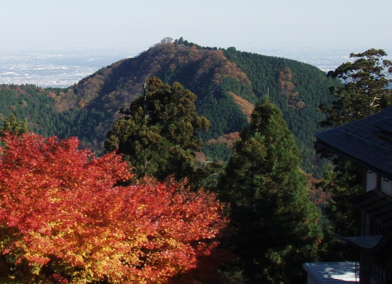 Mt.Hinode seen from Mt.Mitake. Tokyo, Japan.